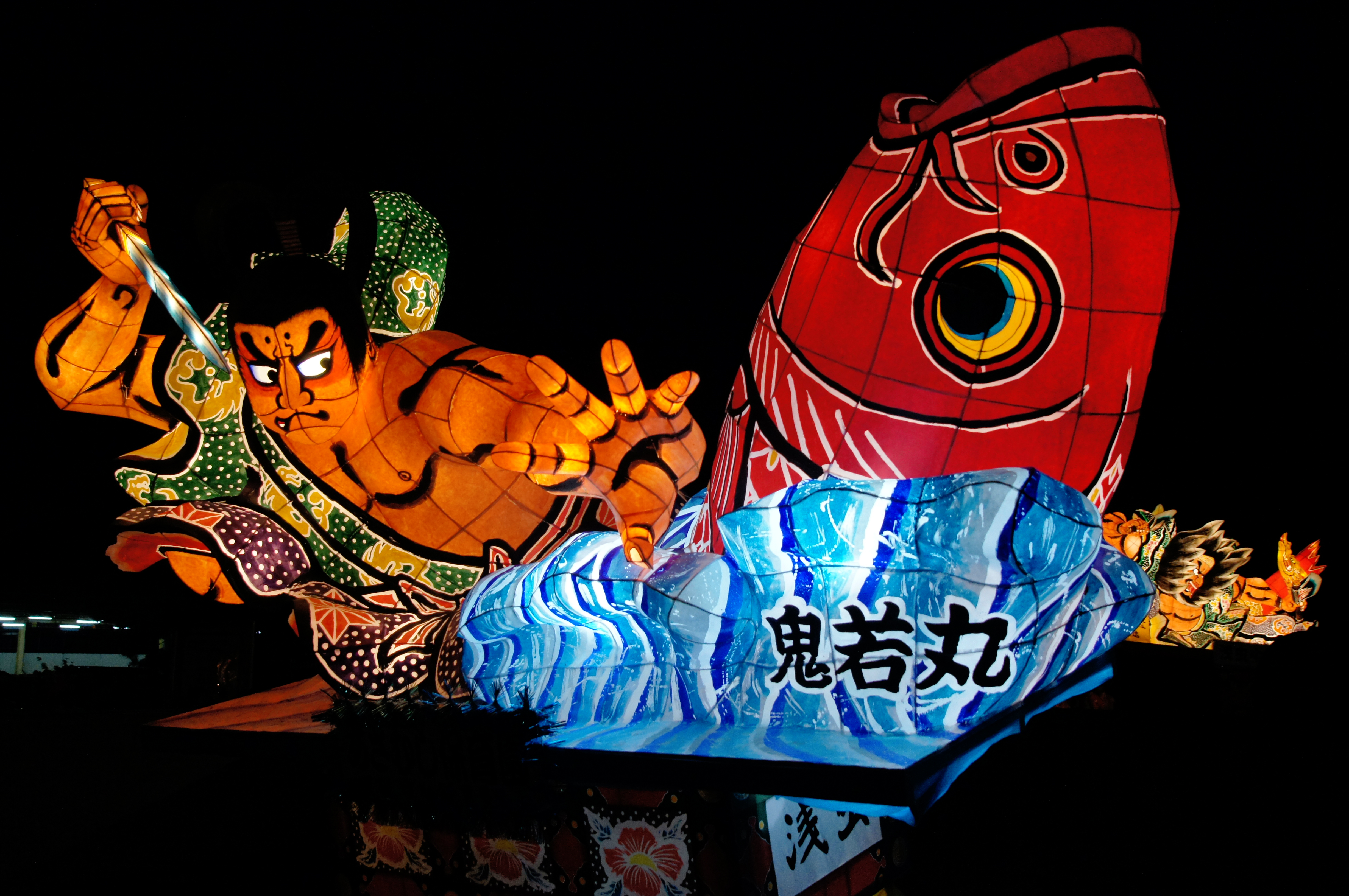 Asamushi Onsen Nebuta Festival at Asamushi Onsen in Aomori, Aomori prefecture, Japan